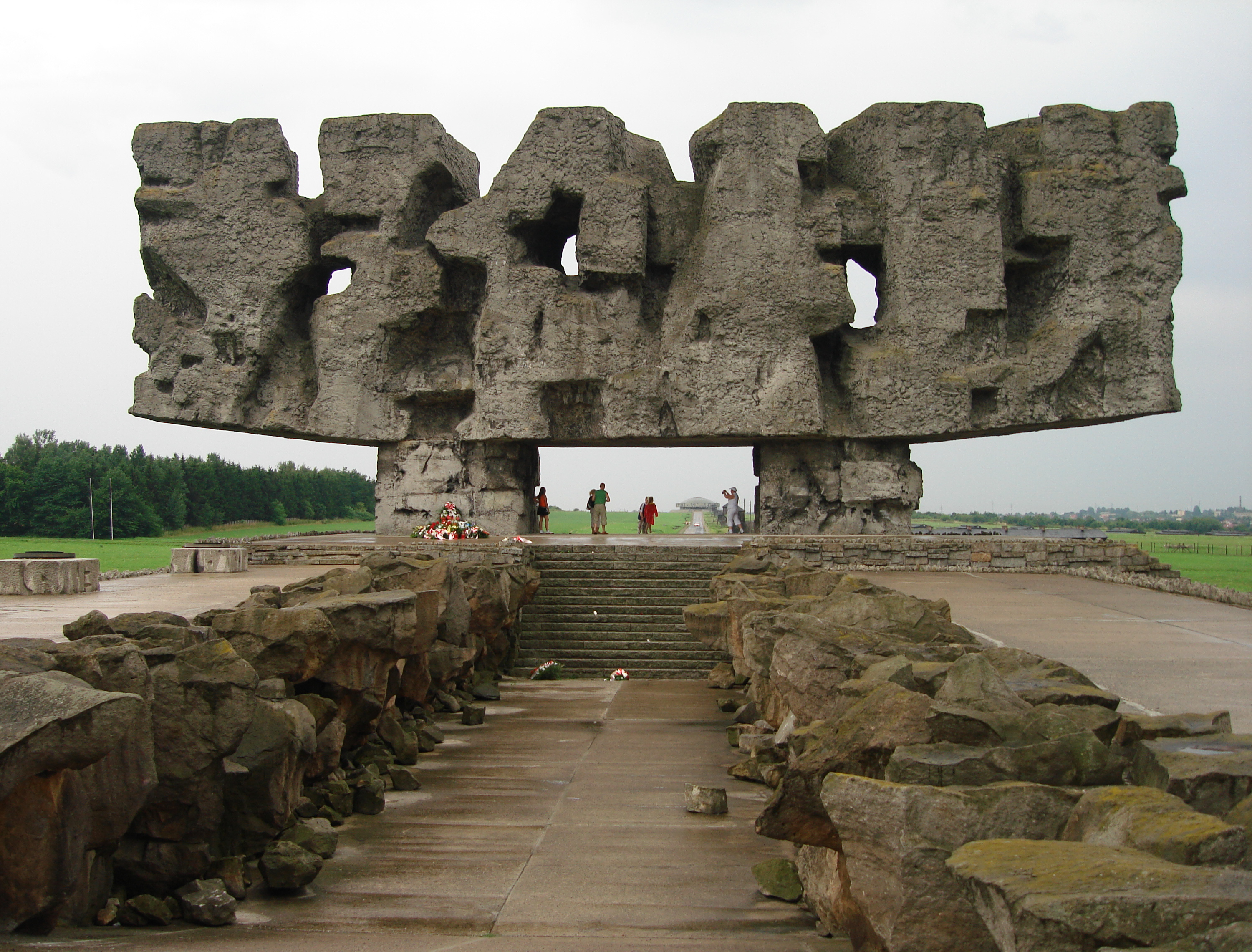 German concentration camp Majdanek. Monument of Struggle and Martyrdom at Majdanek